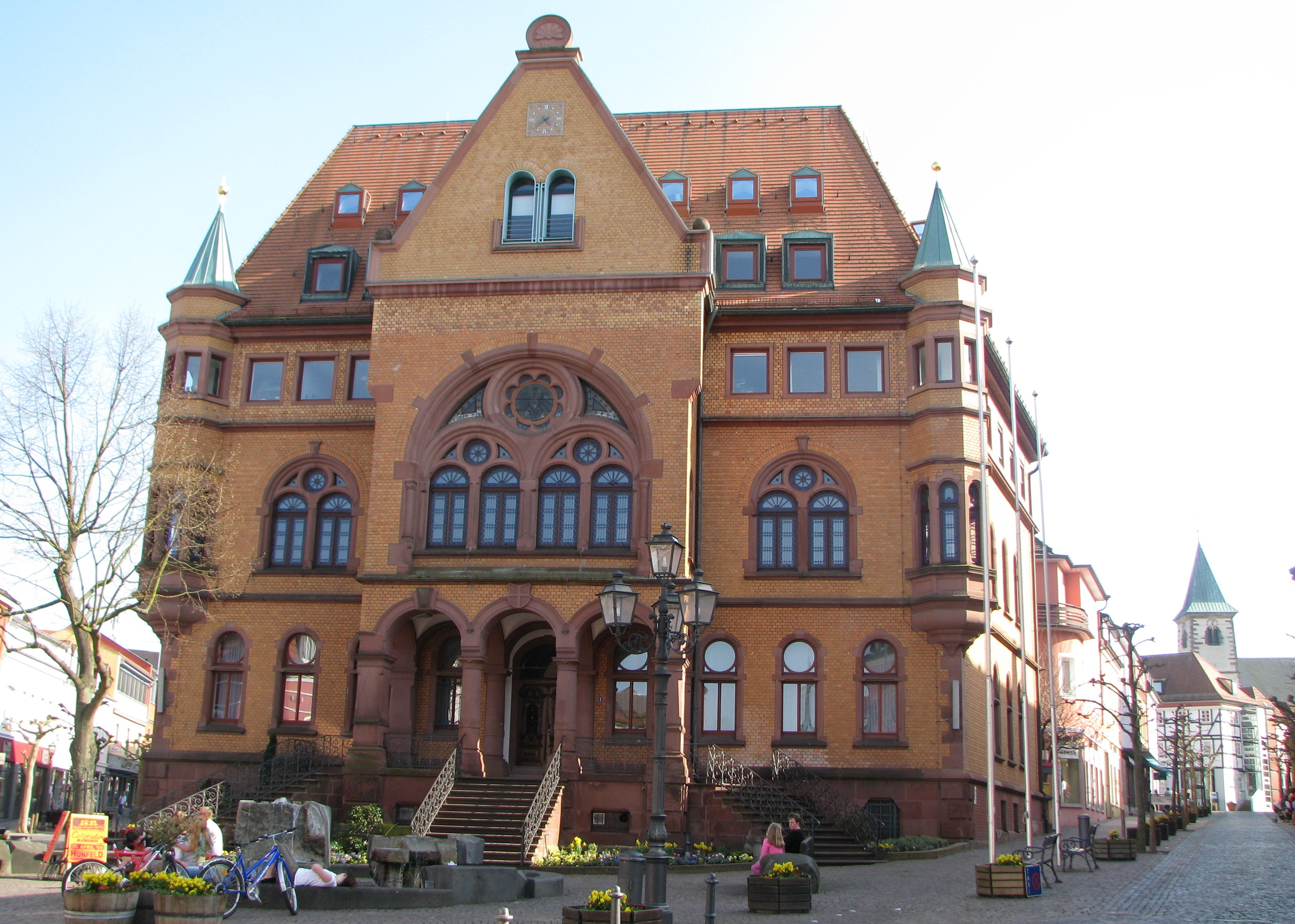 City Hall of Hünfeld (Hesse)